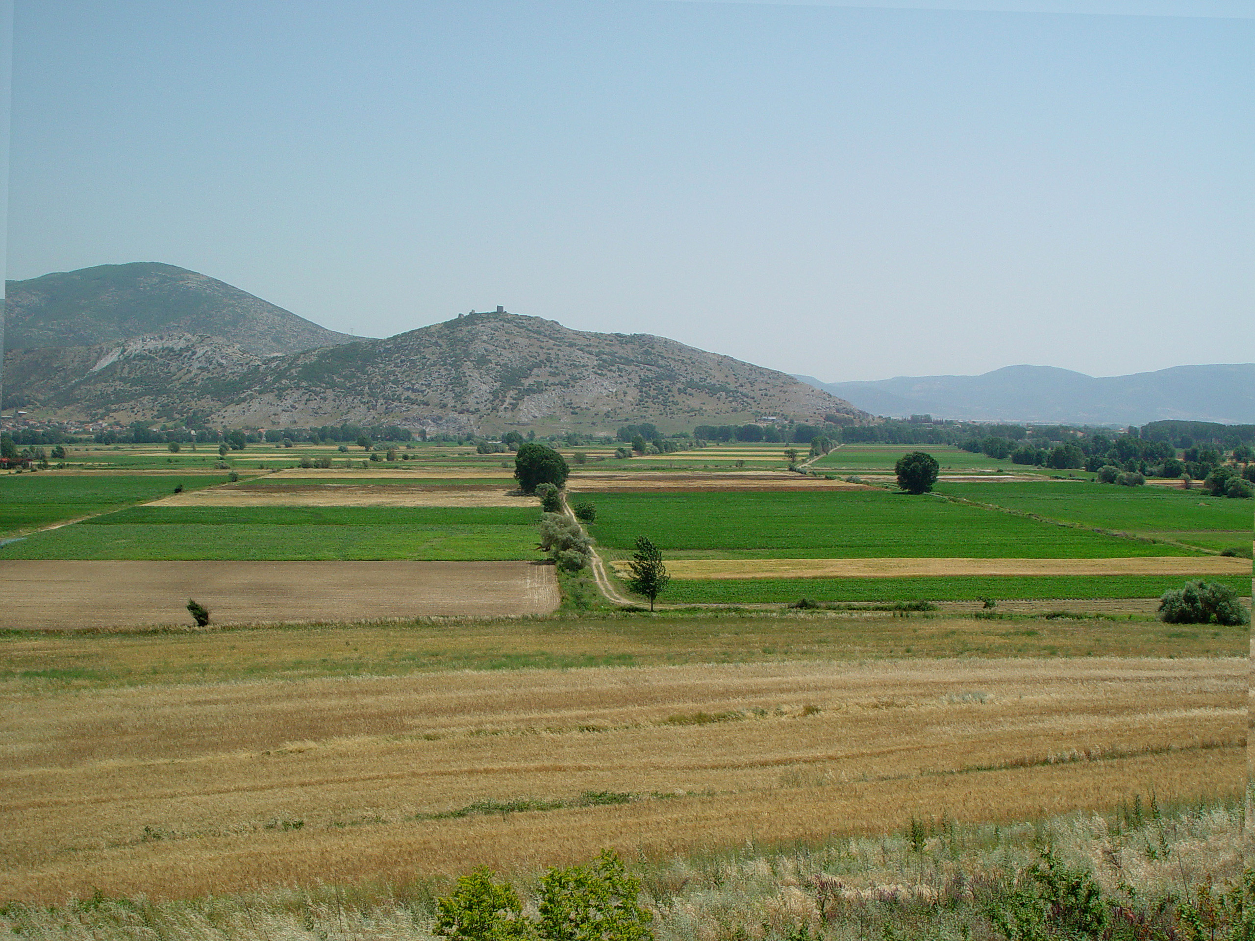 Philippi's acropolis seen from Cassius camp's hill. Photography taken by Marsyas 05:24, 11 May 2005 (UTC).